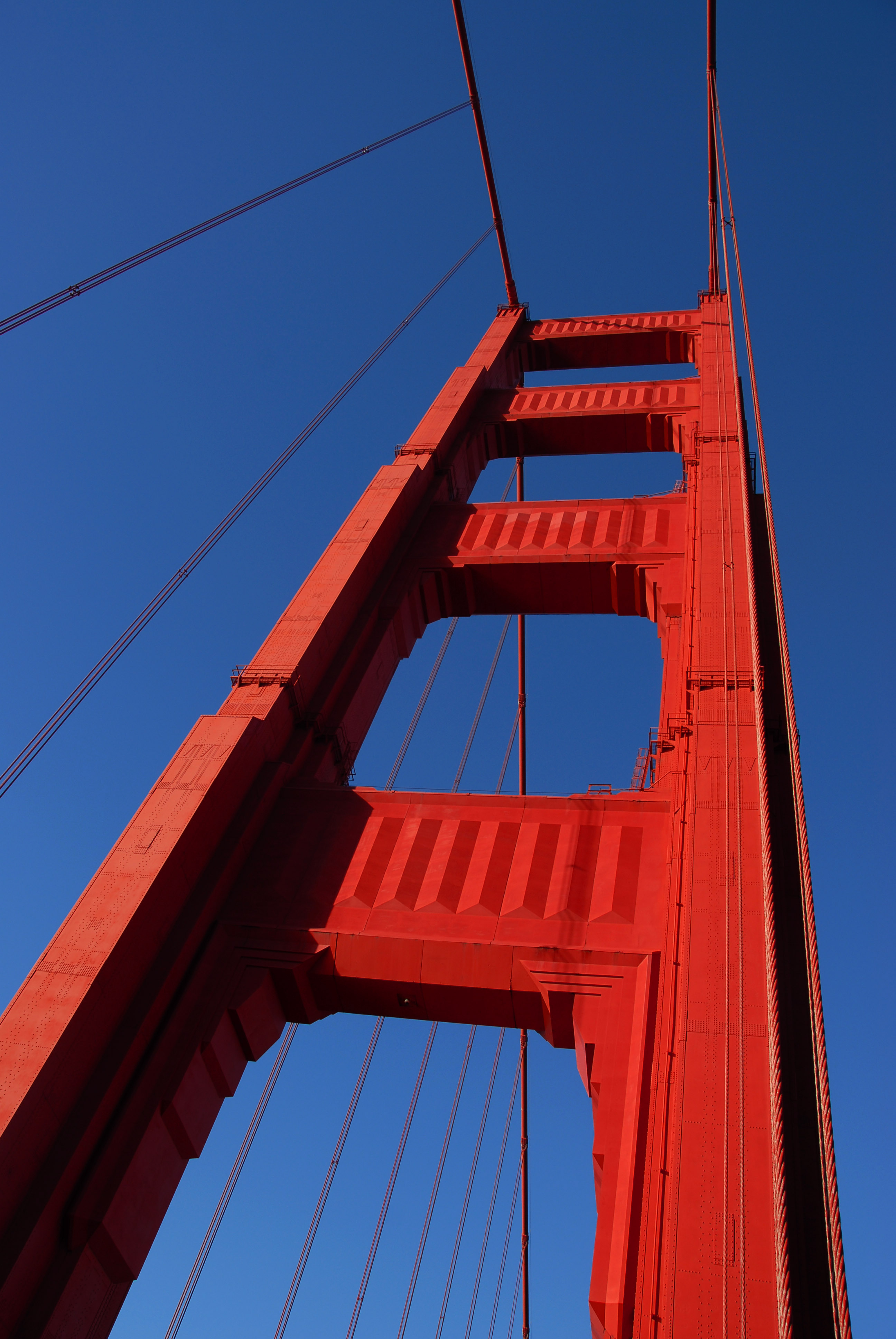 Golden Gate Detail